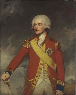 John Mackenzie, Lord Macleod in British Uniform as the Colonel of the Highland Light Infantry Regiment